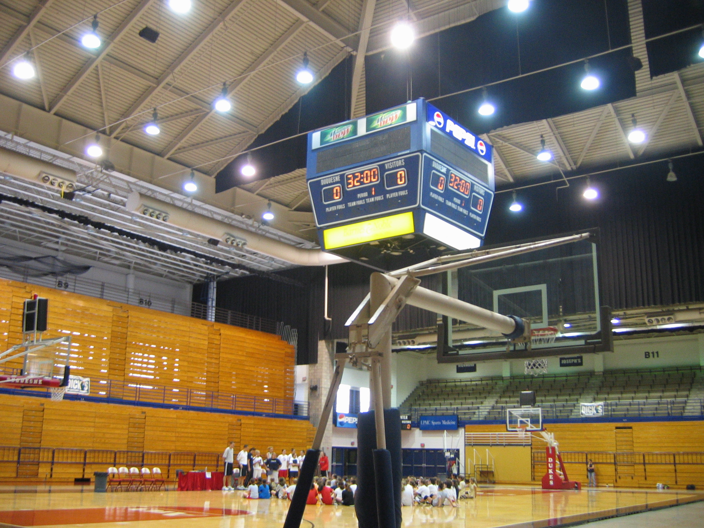 Football & Basketball Facilities Duquesne Gym